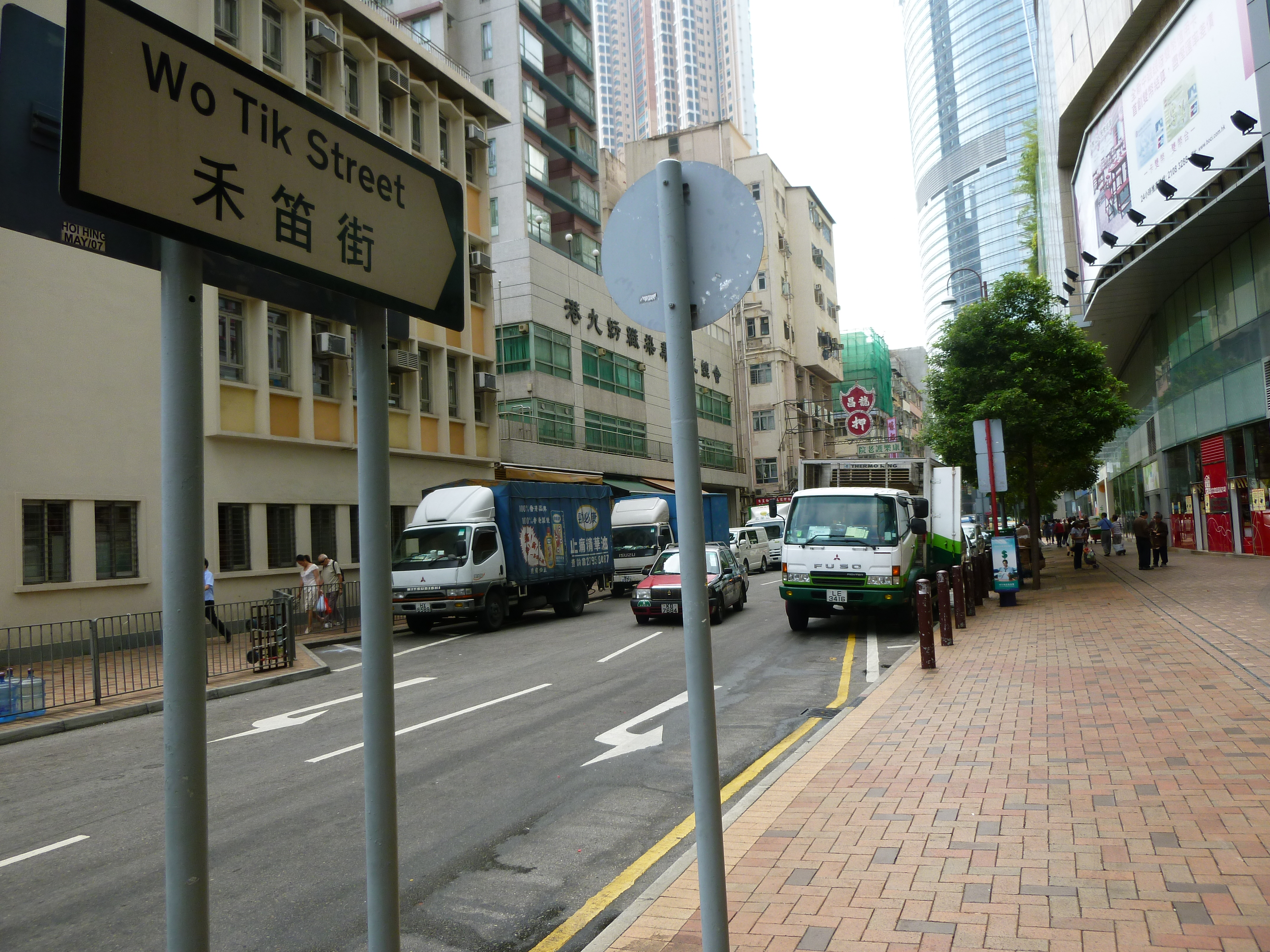 Wo Tik Street, Tsuen Wan, Hong Kong